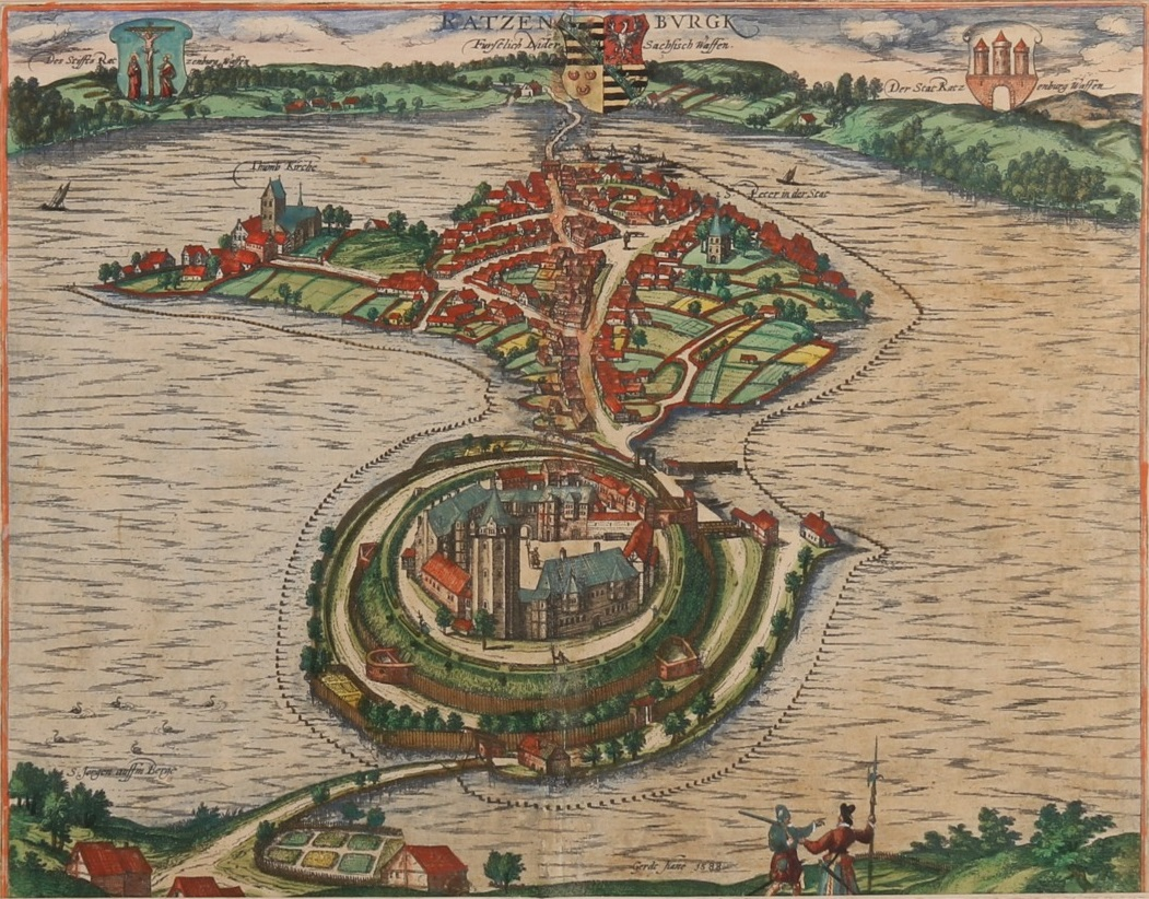 Map of the city of Ratzeburg